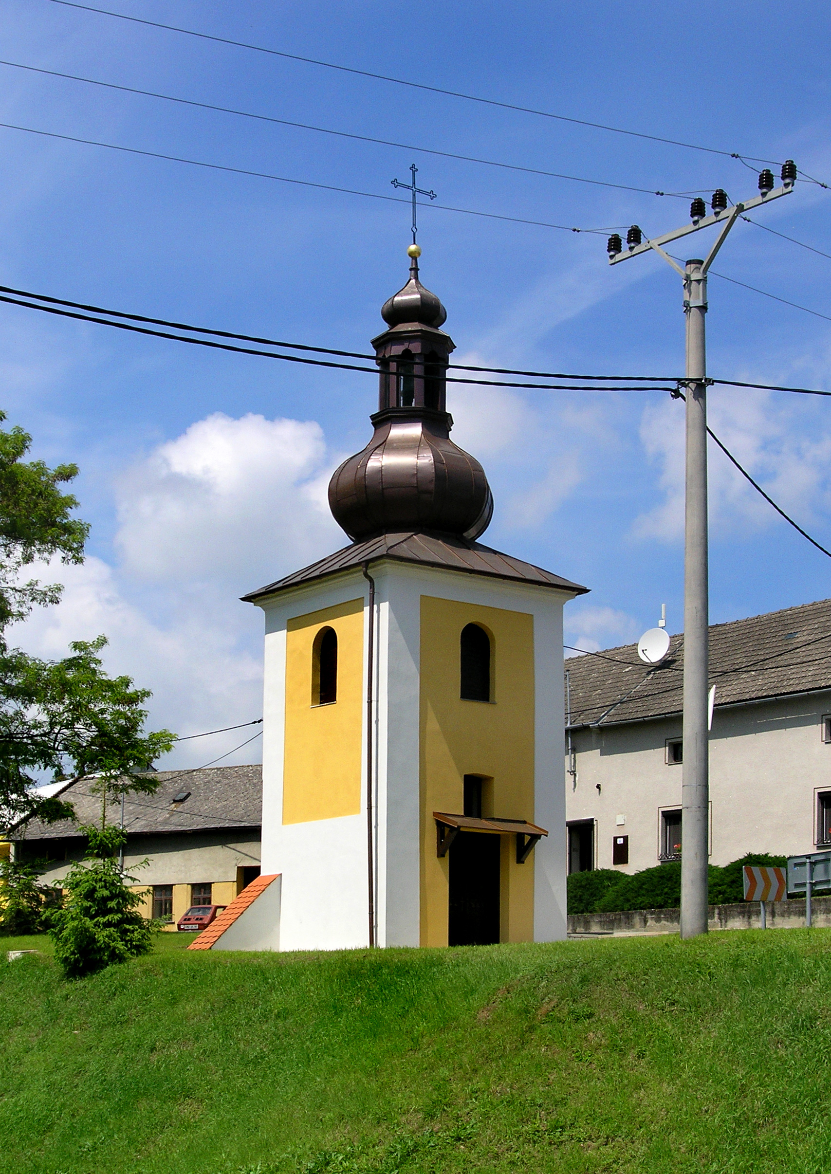 Bell tower in Troubky, part of Troubky-Zdislavice village, Czech Republic